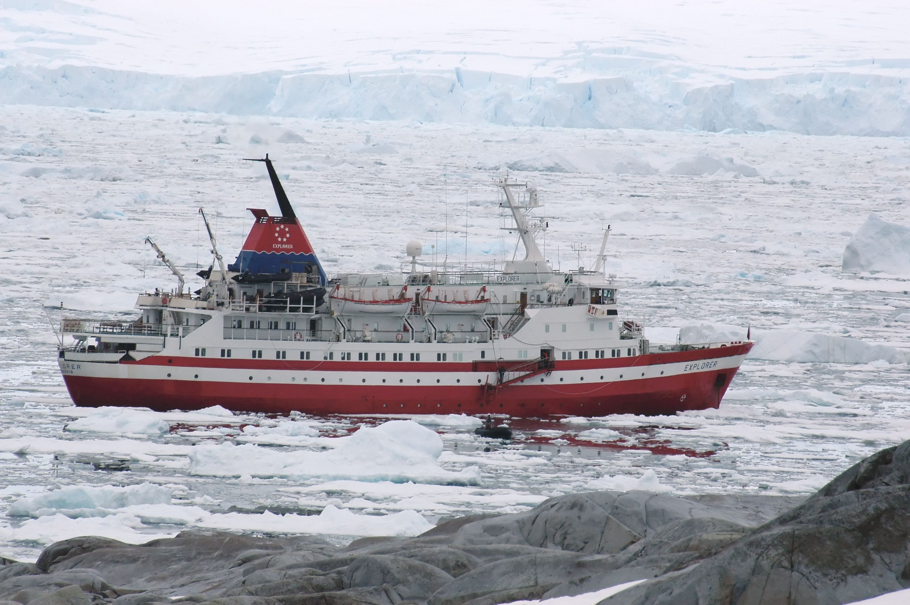 MS Explorer, during a trip to the Antarctic Peninsula in January 2005.